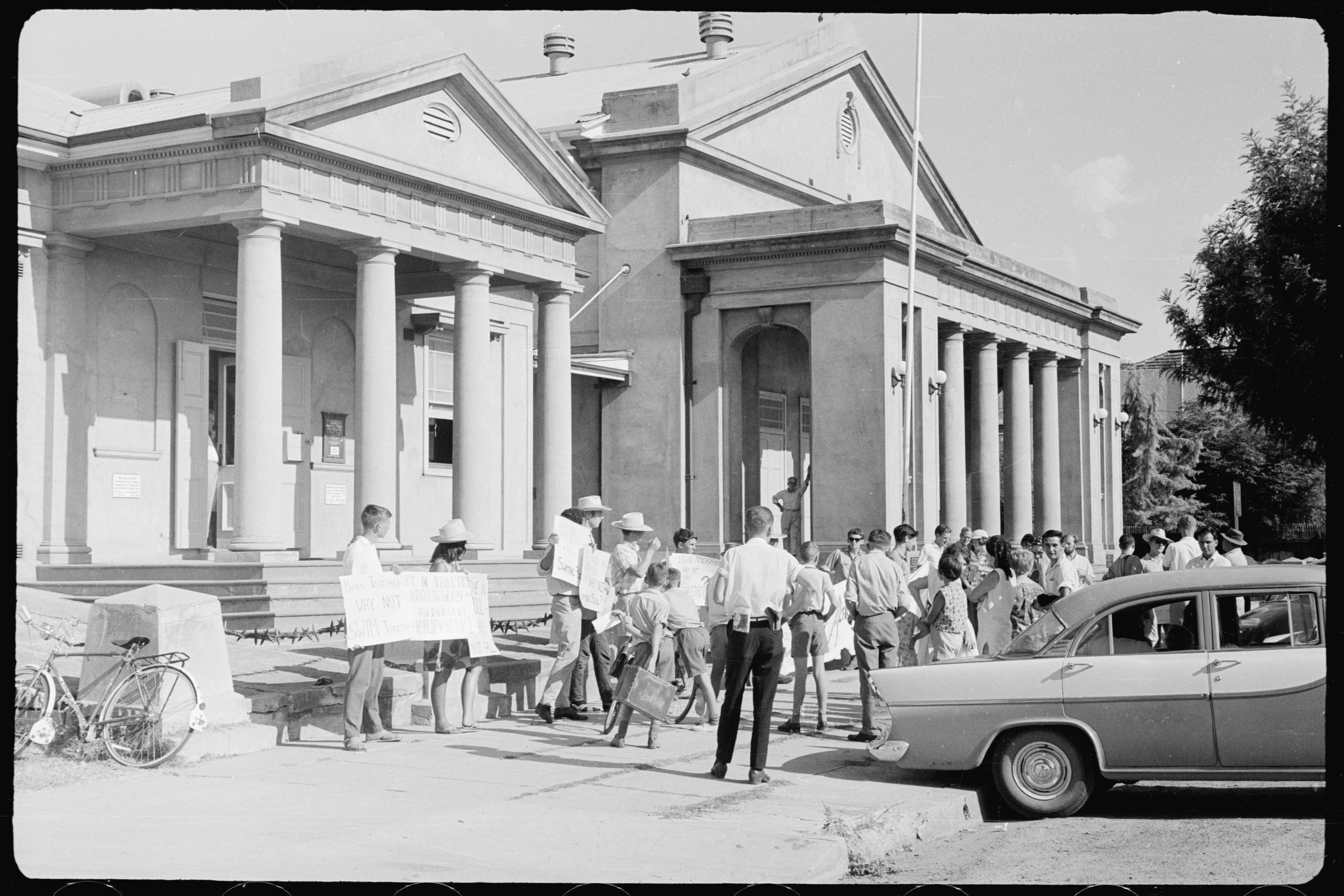 Can you help identify the people and places documented in this photograph? Call Number:ON 161/221 Format: Photograph 35 mm Find more detailed information about this photograph: Search for more great images in the State Library's collections: .au/search/SimpleSearch.aspx For more information about Indigenous Services at the State Library of NSW: Protocols for Libraries and Archives. Further information on the ATSILIRN Protocols is available here: .au/protocols.php#_=_ From the collection of the State Library of New South Wales